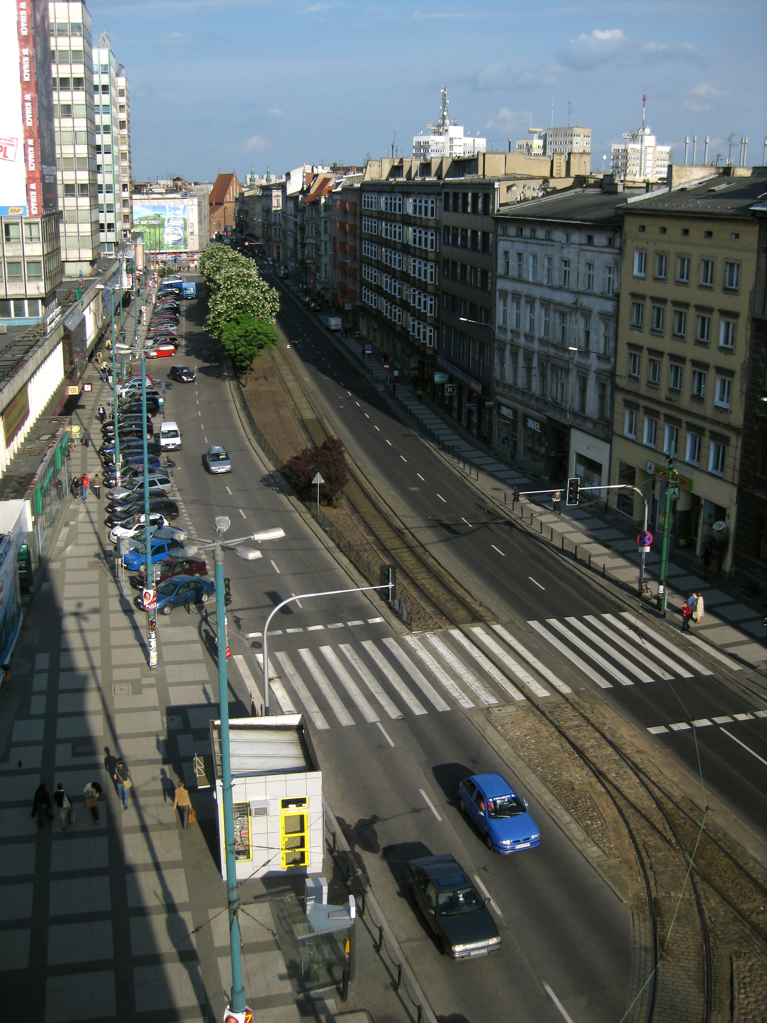 Św. Marcin street seen from hotel Lech window.